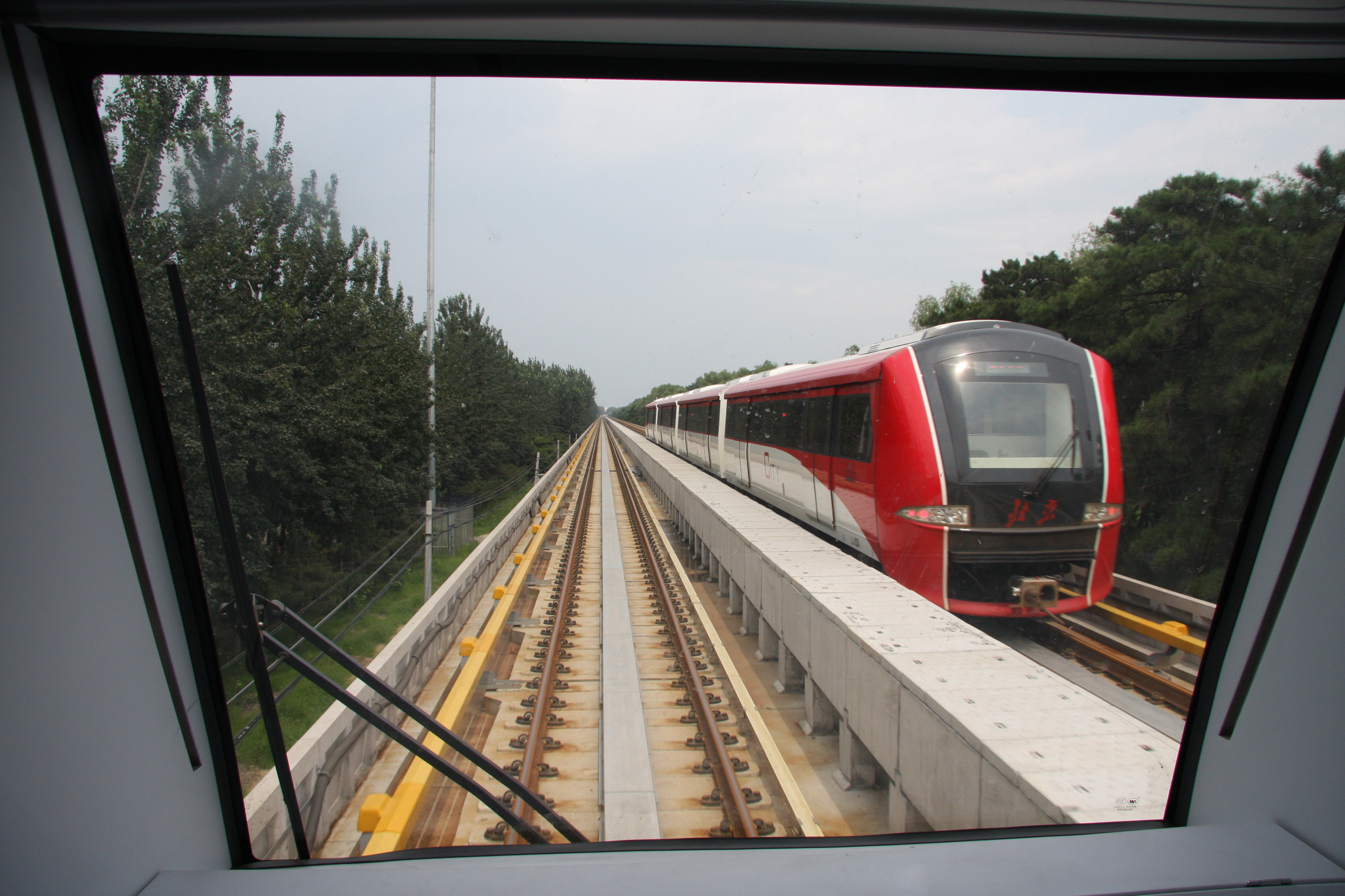 Photo Taken from the Beijing Airport Express Train